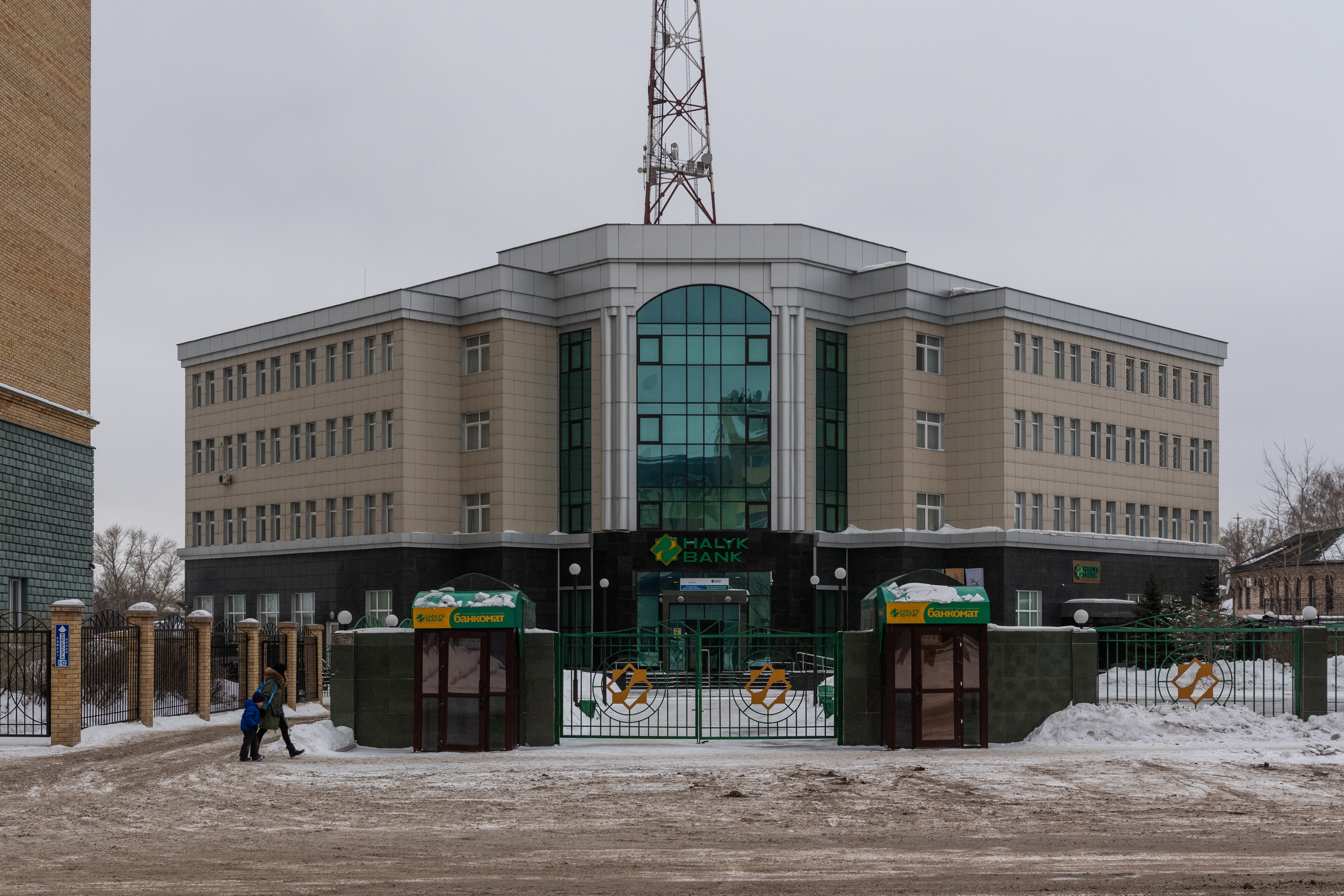 Karaganda, Kazakhstan